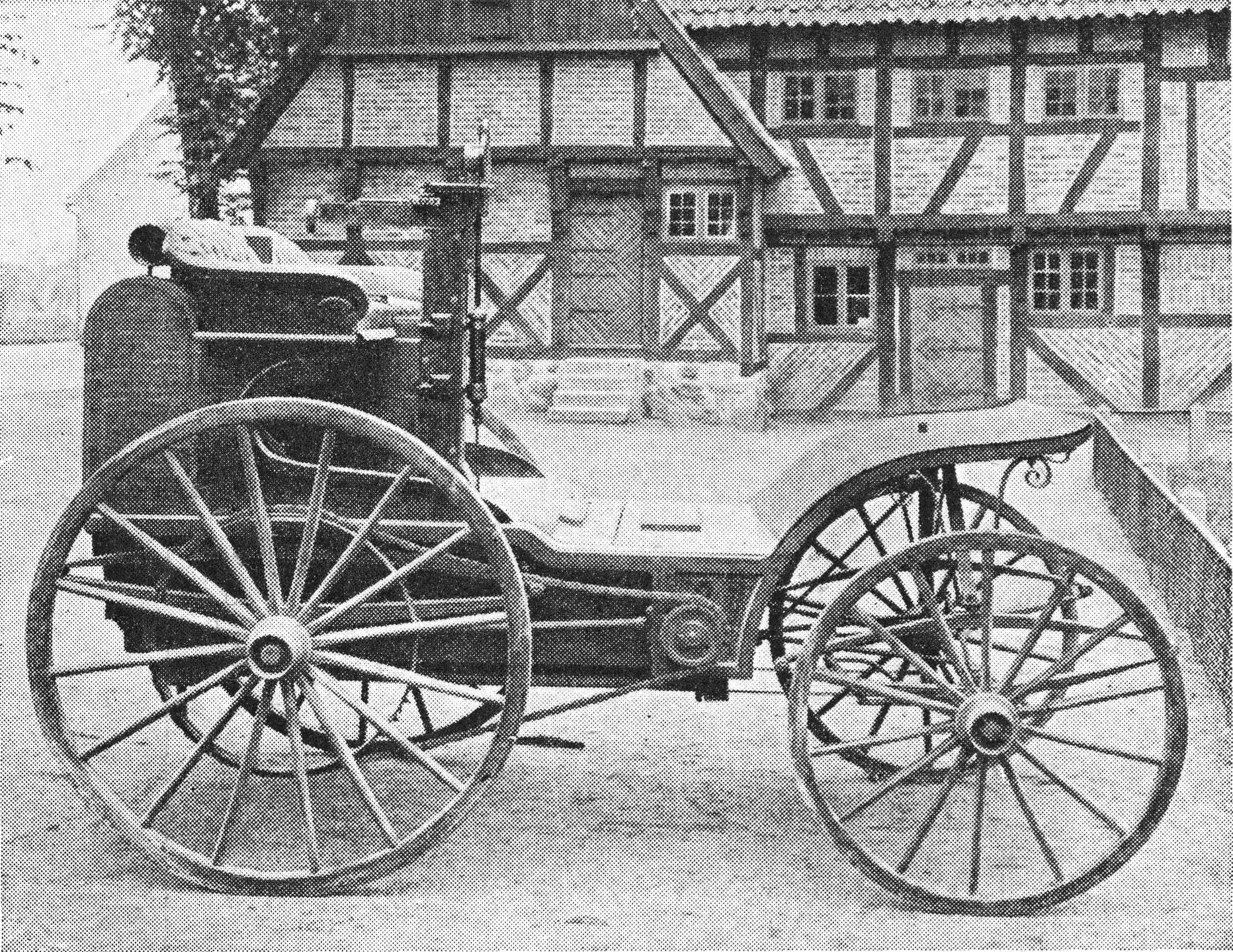 Early automobile, constructed by the brothers Jöns and Anders Cederholm in Ystad, Sweden, in 1893. It was run by a steam engine with two cylinders. The wheels are ordinary wagon wheels.